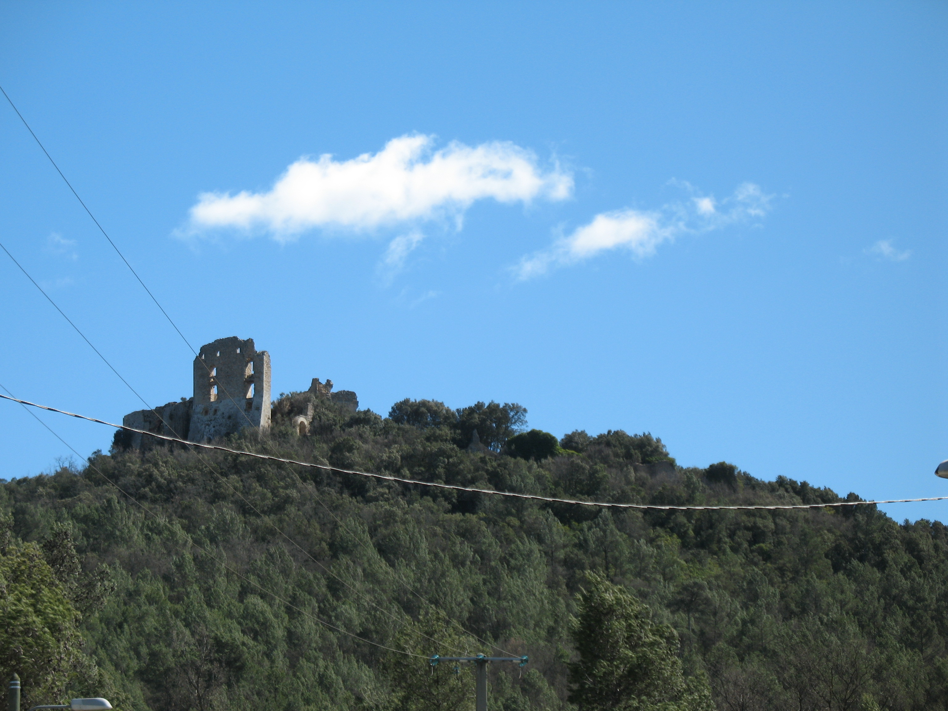 Forcalqueiret LeCastellas North view (detail)